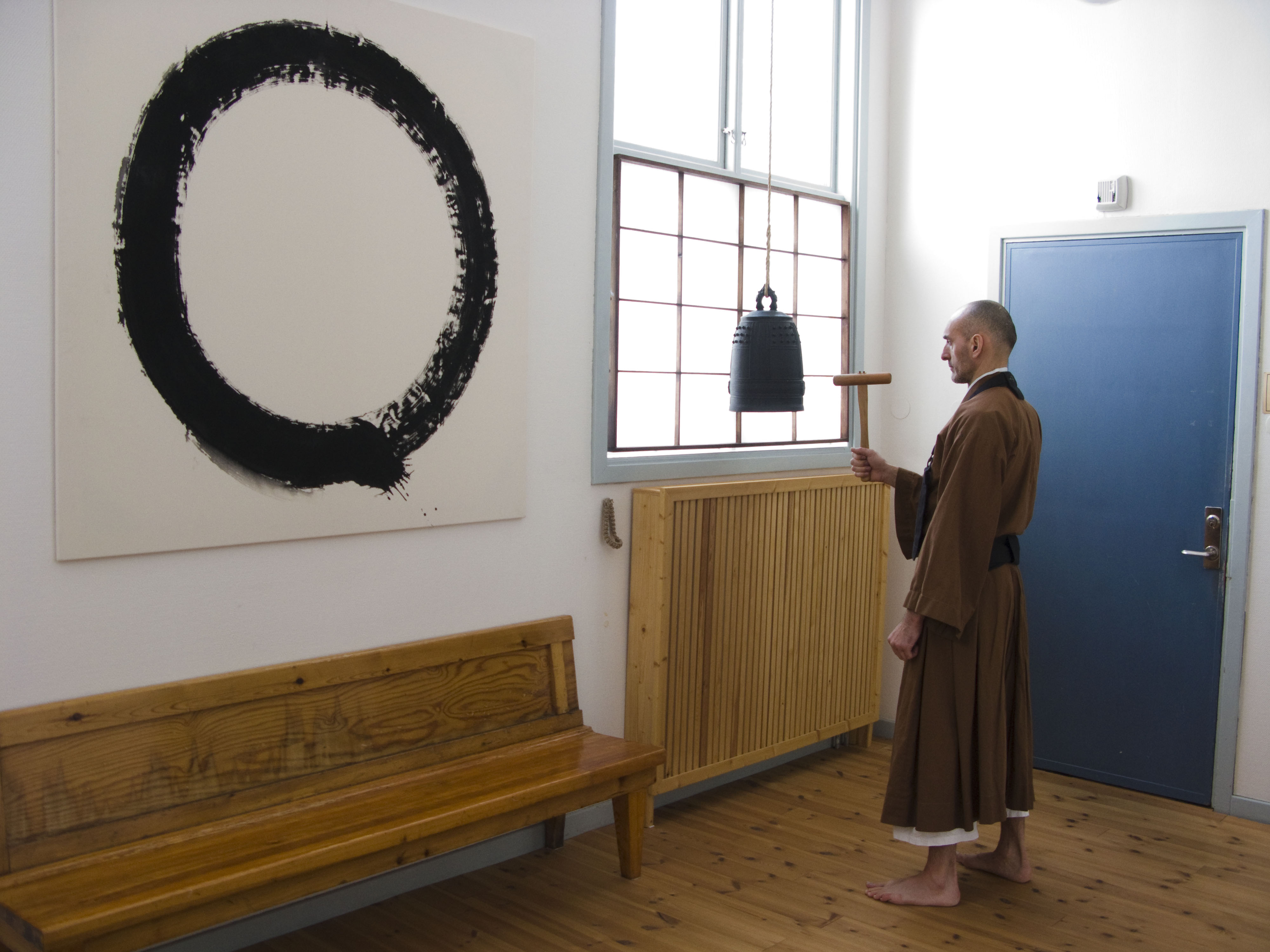 Zazen bell with Enso in Background